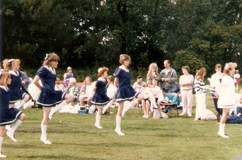 Modern North-West English "Morris Dancing", which bears little relationship to folk traditions.